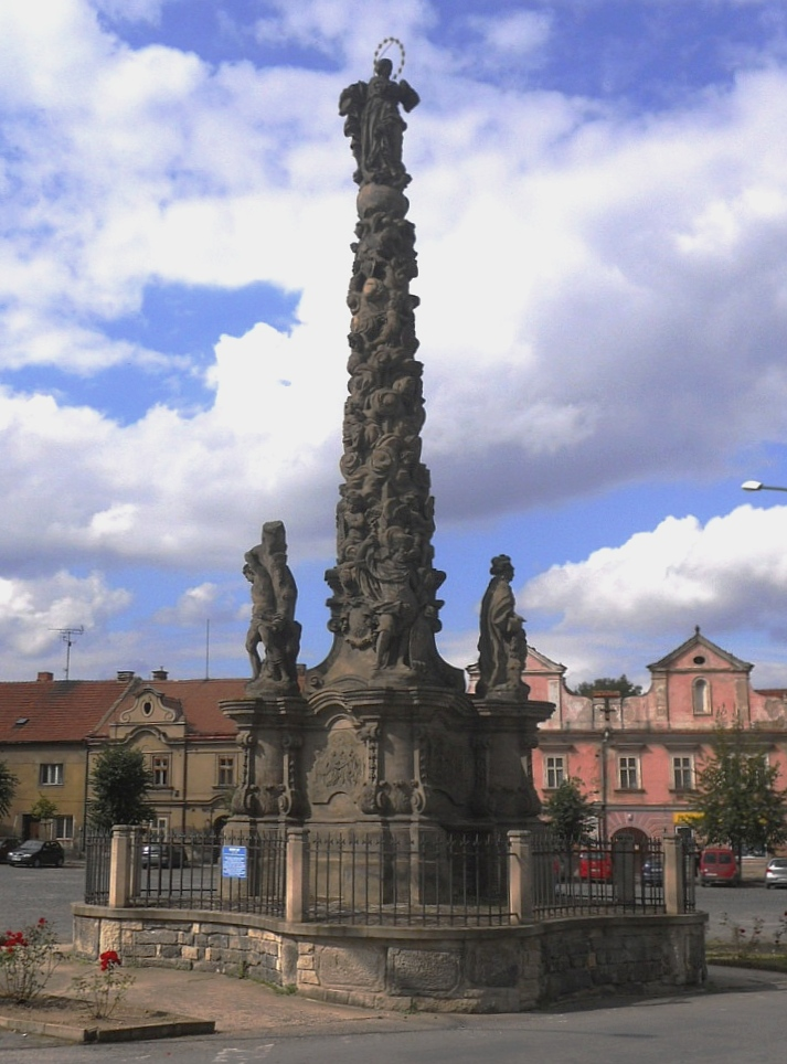 Velvary, St Mary column (F. Tollinger 1716-19)